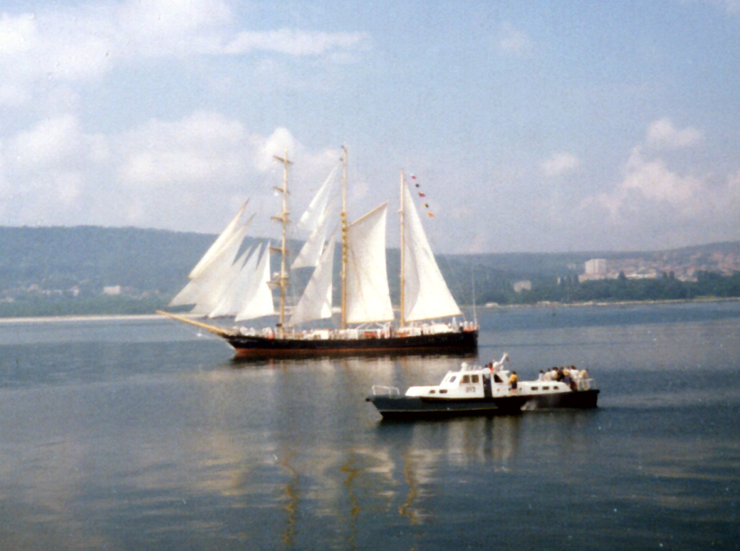 the barquentine "Kaliakra" is leaving the port Varna, Bulgaria